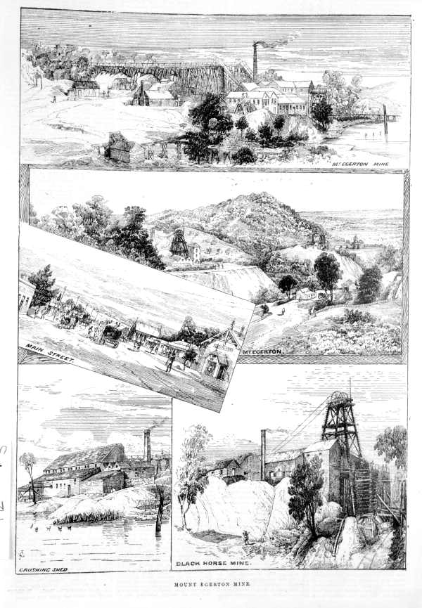 Montage of Mount Egerton and mine in 1892